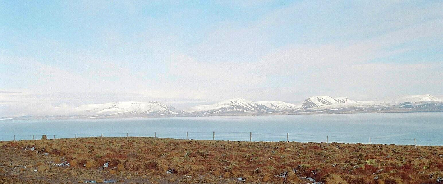 The peninsula of Skagi in the north of Iceland seen from Vatnsnes peninsula.